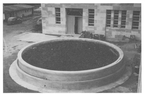 This is the top of the vault which housed the seismological equipment of the University of Queensland. When the University moved from its original campus in George Street, Brisbane to the new one in St Lucia, a new purpose built vault was constructed.